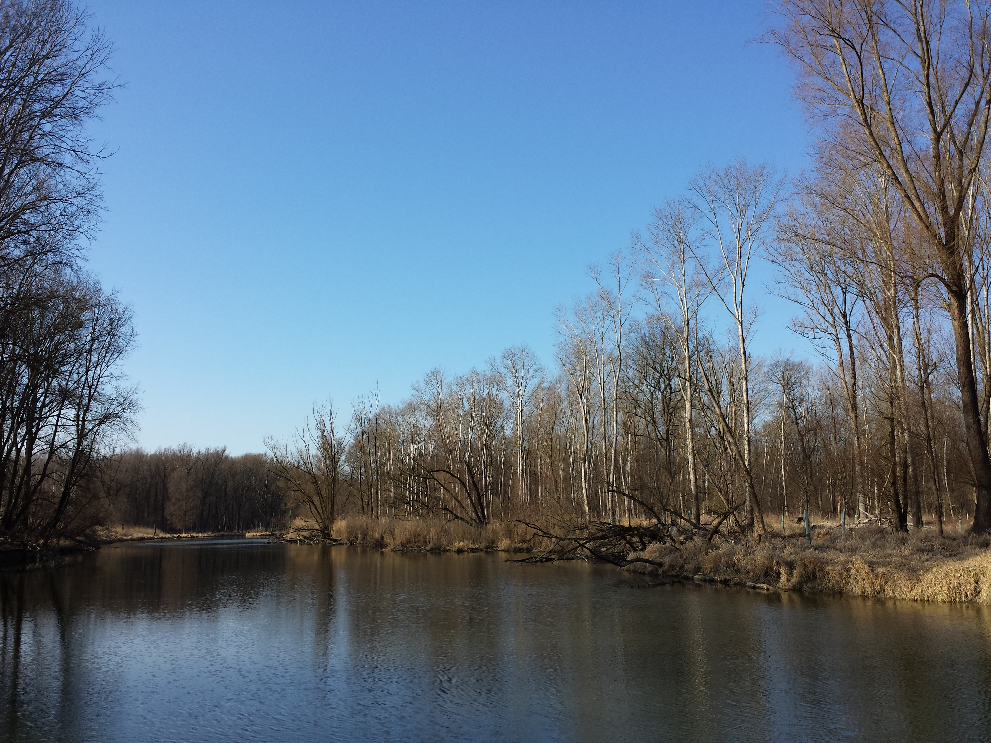 Naturschutzgebiet Stockerauer Au, Bezirk Korneuburg, Niederösterreich - ca. 170 msm Back water This media shows the nature reserve in Lower Austria with the ID 45.